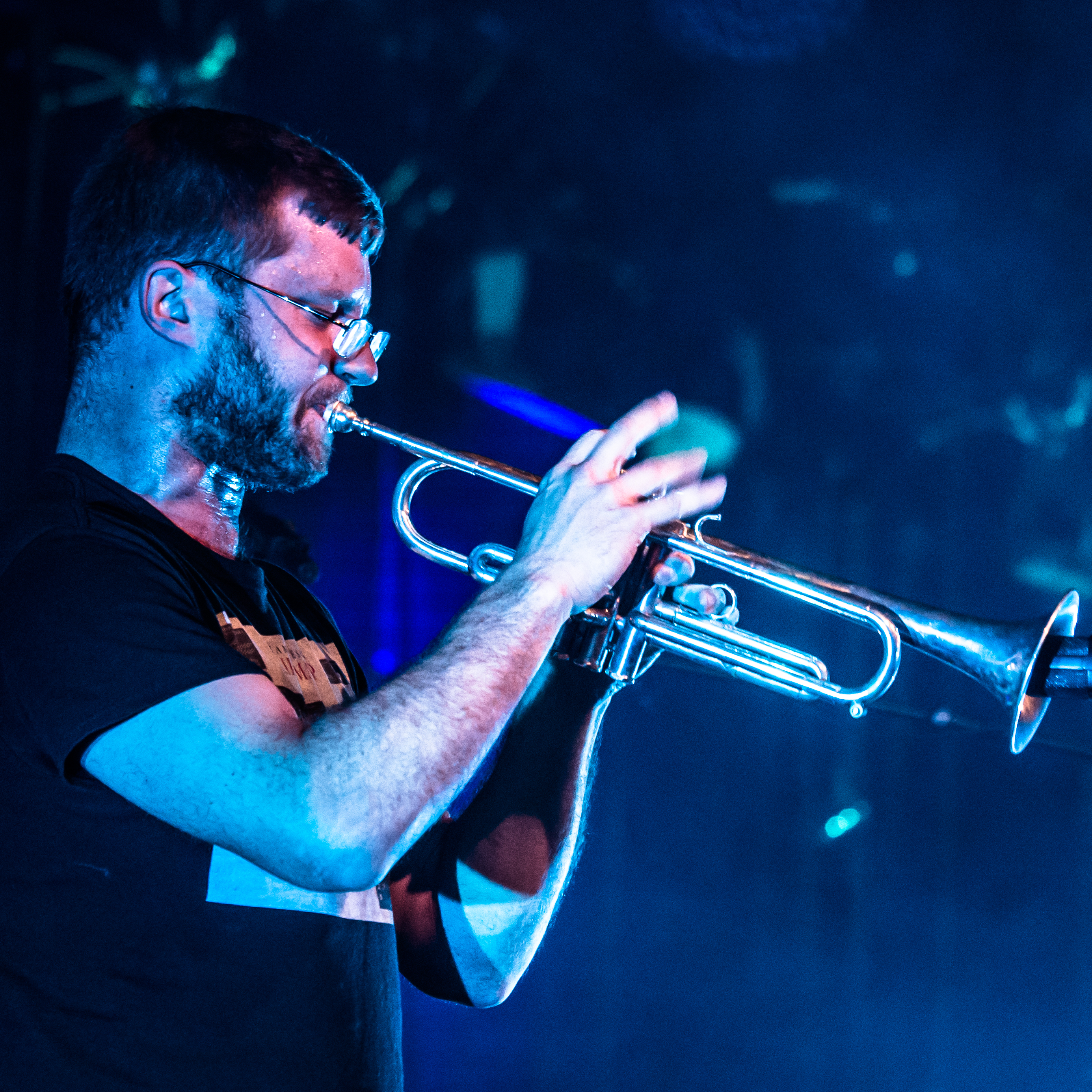 US-american trumpet player Peter Evans at the Moers Festival 2015